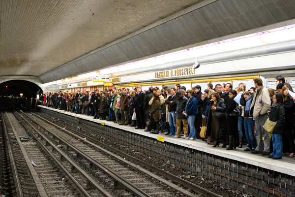 Franklin D. Roosevelt platform during the November 2007 strikes in France